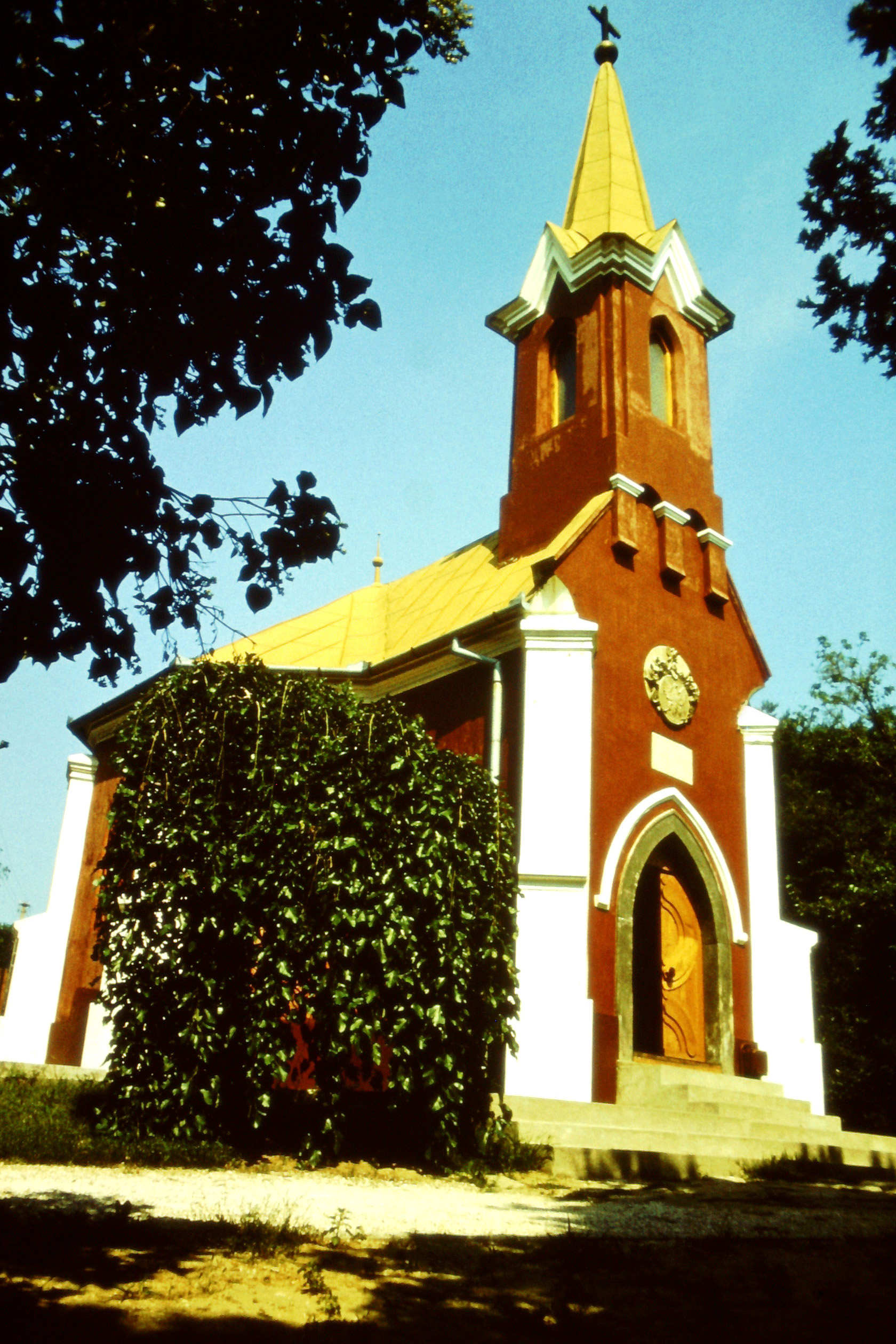 Red Chapel, Balatonboglár, Hungary (1977)